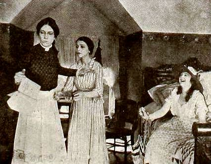 Still from the American film Heart of Twenty (1920) with (from left) Aileen Manning (1886 – 1946), ZaSu Pitts, and an unidentified actress, on page 4974 of the June 19, 1920 Motion Picture News.